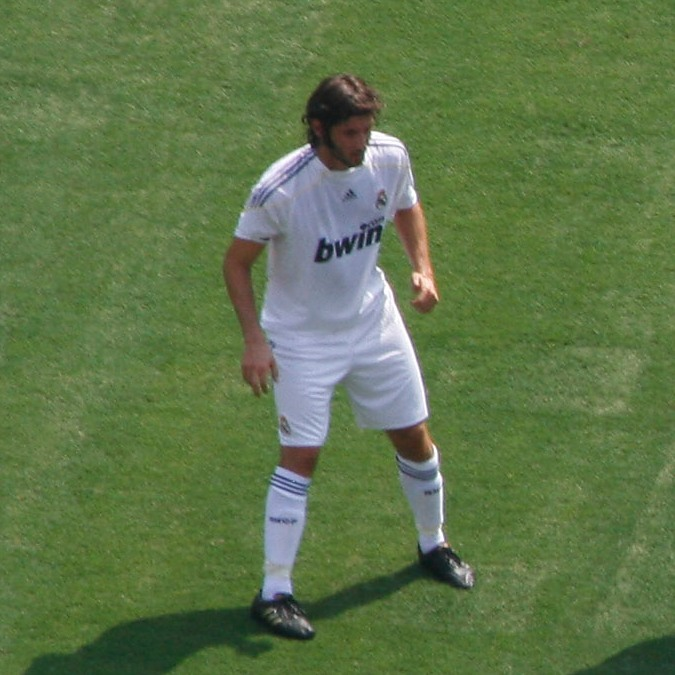 Esteban Granero with Real Madrid C.F. vs DC United at FedEx Field